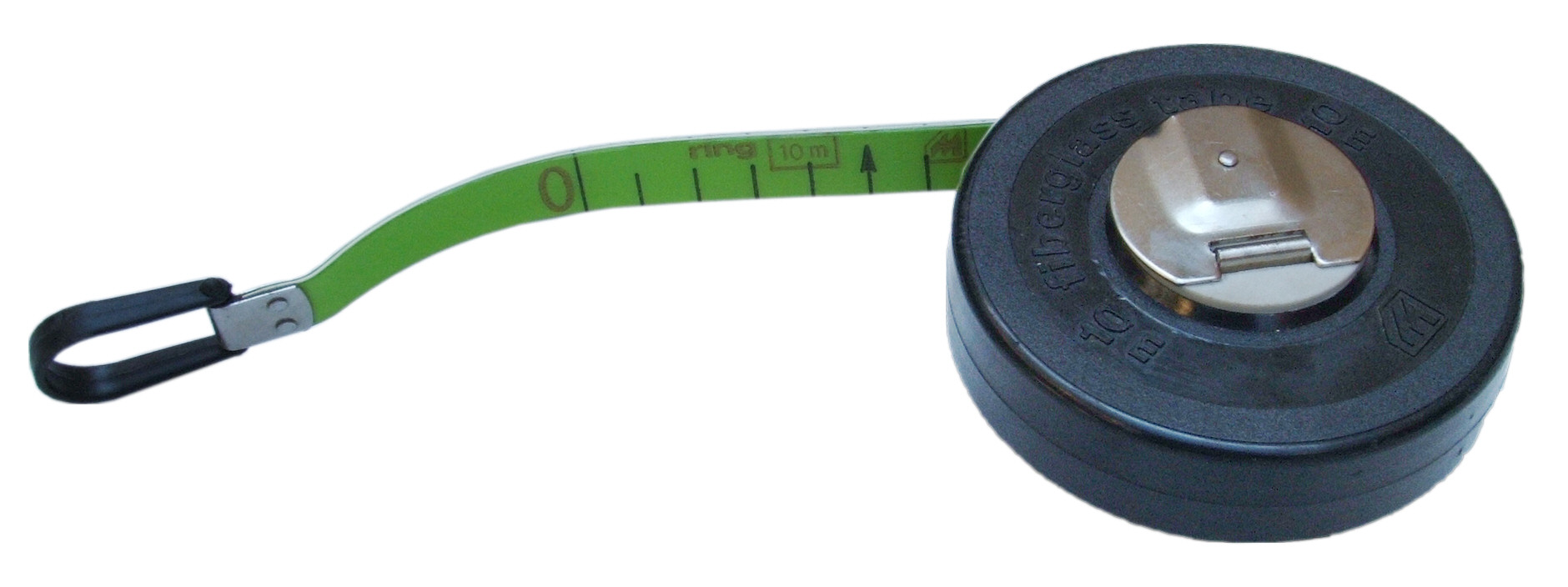 Tape measure